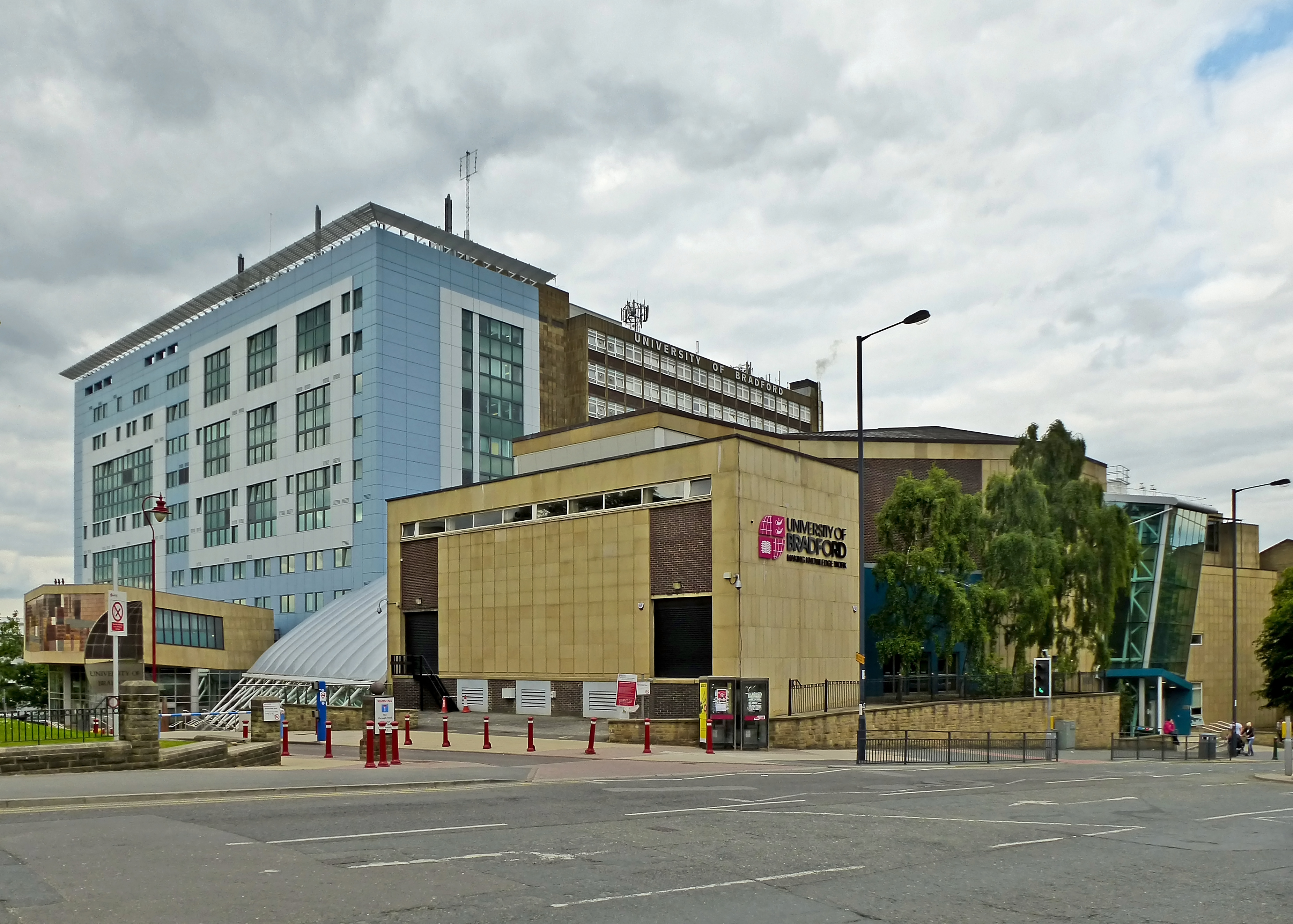 University of Bradford, Bradford, West Yorkshire. Taken on Saturday the 25th of June 2013.